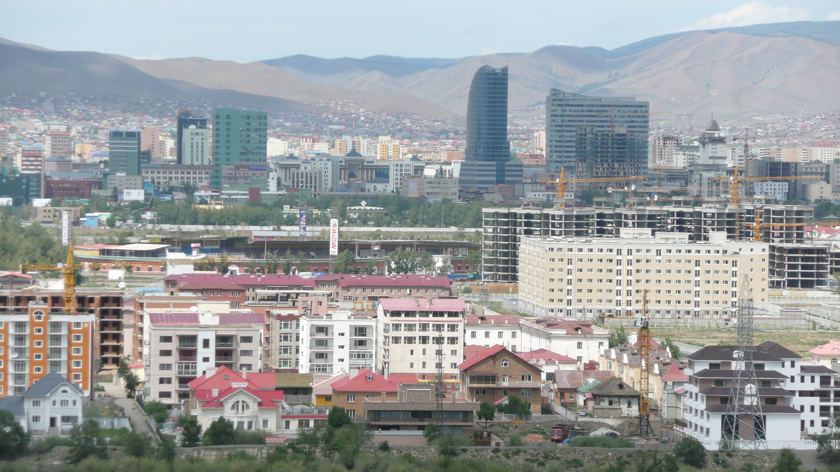 Panorama of Ulan Bator